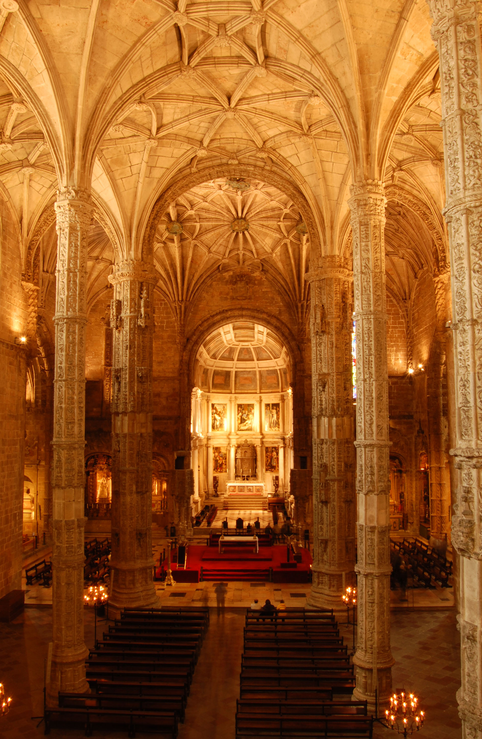 Interior of the church of the Mosteiro dos Jerónimos in the Belém district of Lisbon, Portugal